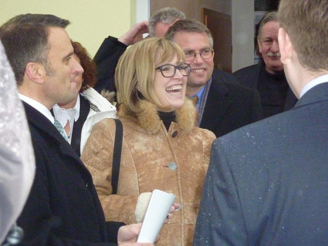 Sina Peschke, German radio presenter Original caption: "Sina Peschke, Moderatorin beim Radiosender Landeswelle Thüringen"